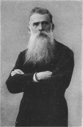 Johann Karl Proksch